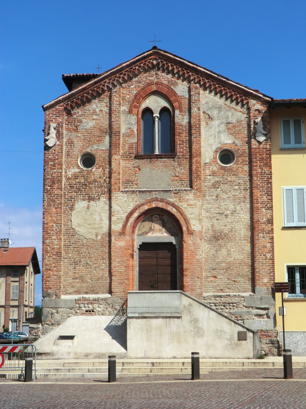 St Stephan Oratory, Lentate sul Seveso Native nameOratorio di Santo StefanoLocationLentate sul Seveso, Lombardy, ItalyCoordinates45° 40′ 42.45″ N, 9° 07′ 19.65″ E Established1369Web page control : Q3884882 VIAF: 132917749 LCCN: no2008167329 GND: 7615023-9 WorldCat institution QS:P195,Q3884882